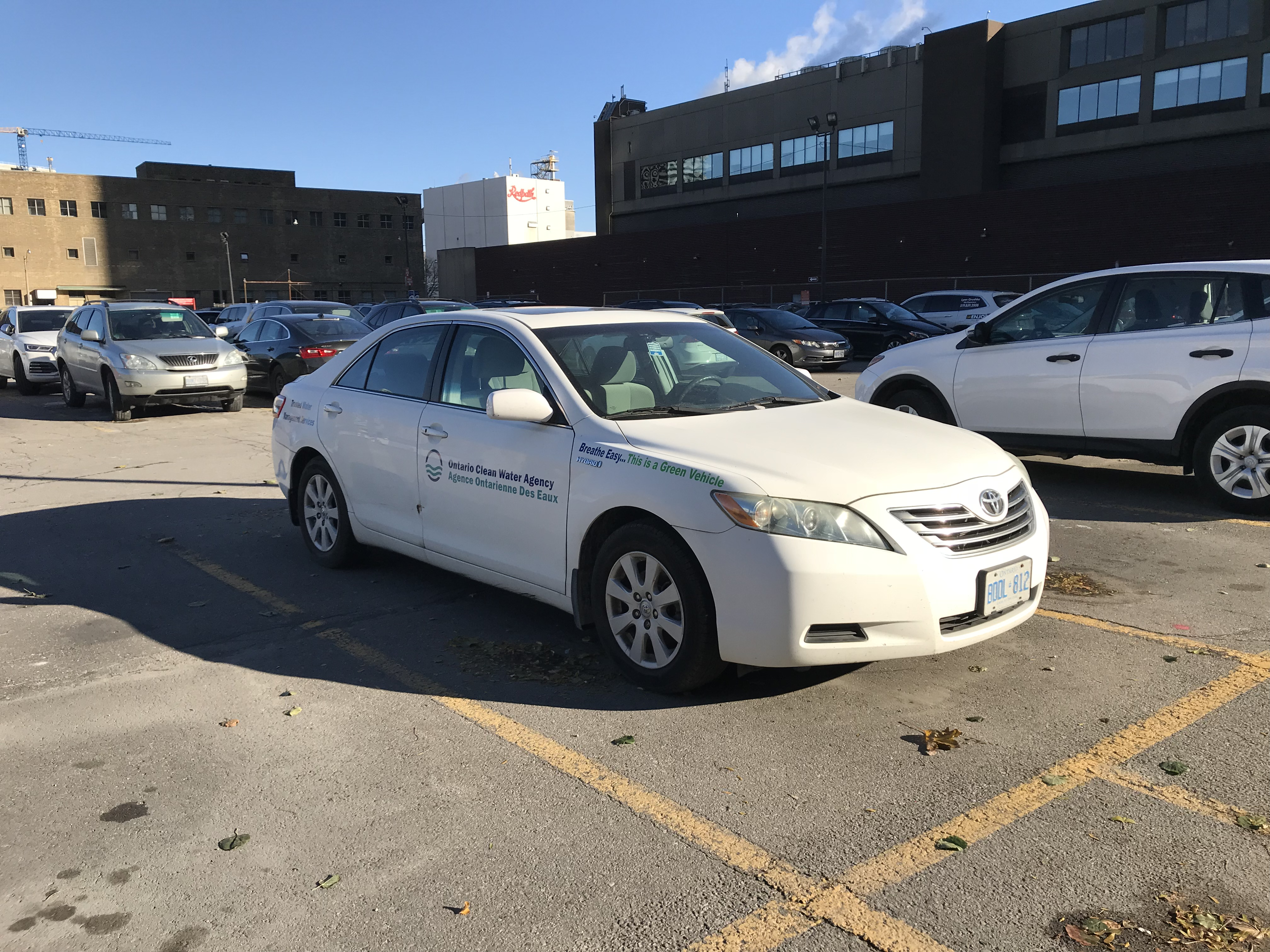 An Ontario Clean Water Agency hybrid vehicle in Toronto, Ontario, Canada. Ontario license plate BDDL 812.